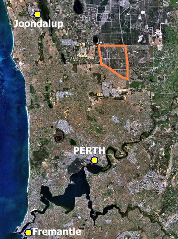 Northern suburbs of Perth, Western Australia from space, with the suburb of Cullacabardee marked in orange, and city centres marked for reference.